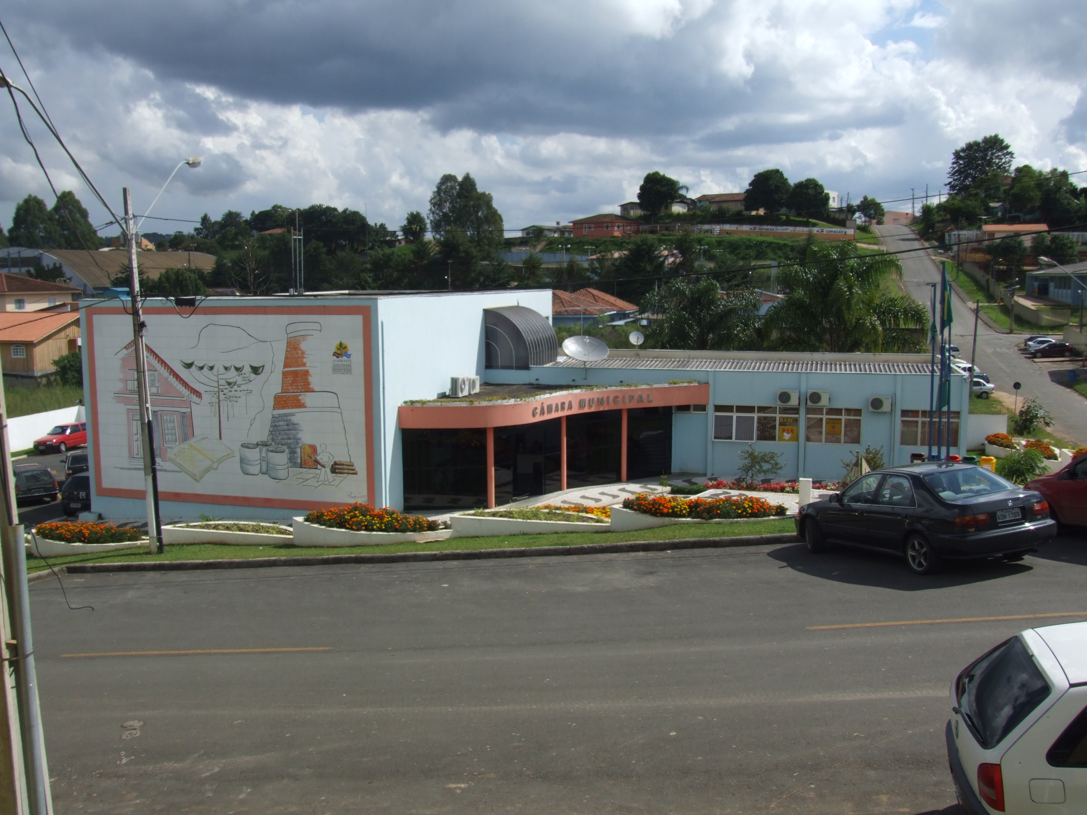 Municipal Chamber of Almirante Tamandaré, Paraná, Brazil, seat of legislative branch of the municipality.